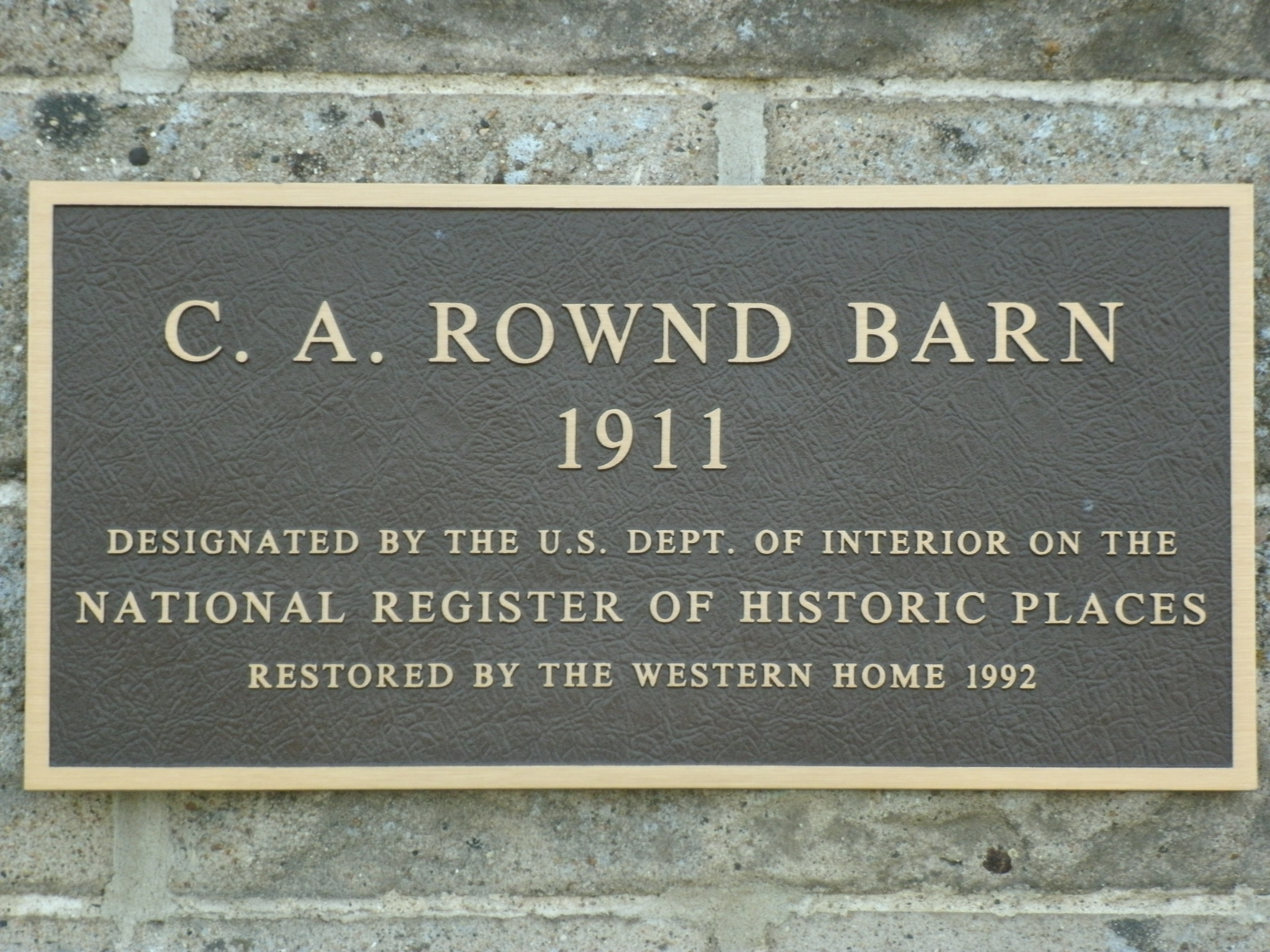 A Plaque mounted on the CA Rownd Barn a Round Barn located at 5102 S. Main in Cedar Falls, Black Hawk County, Iowa is on the National Register of Historic Places